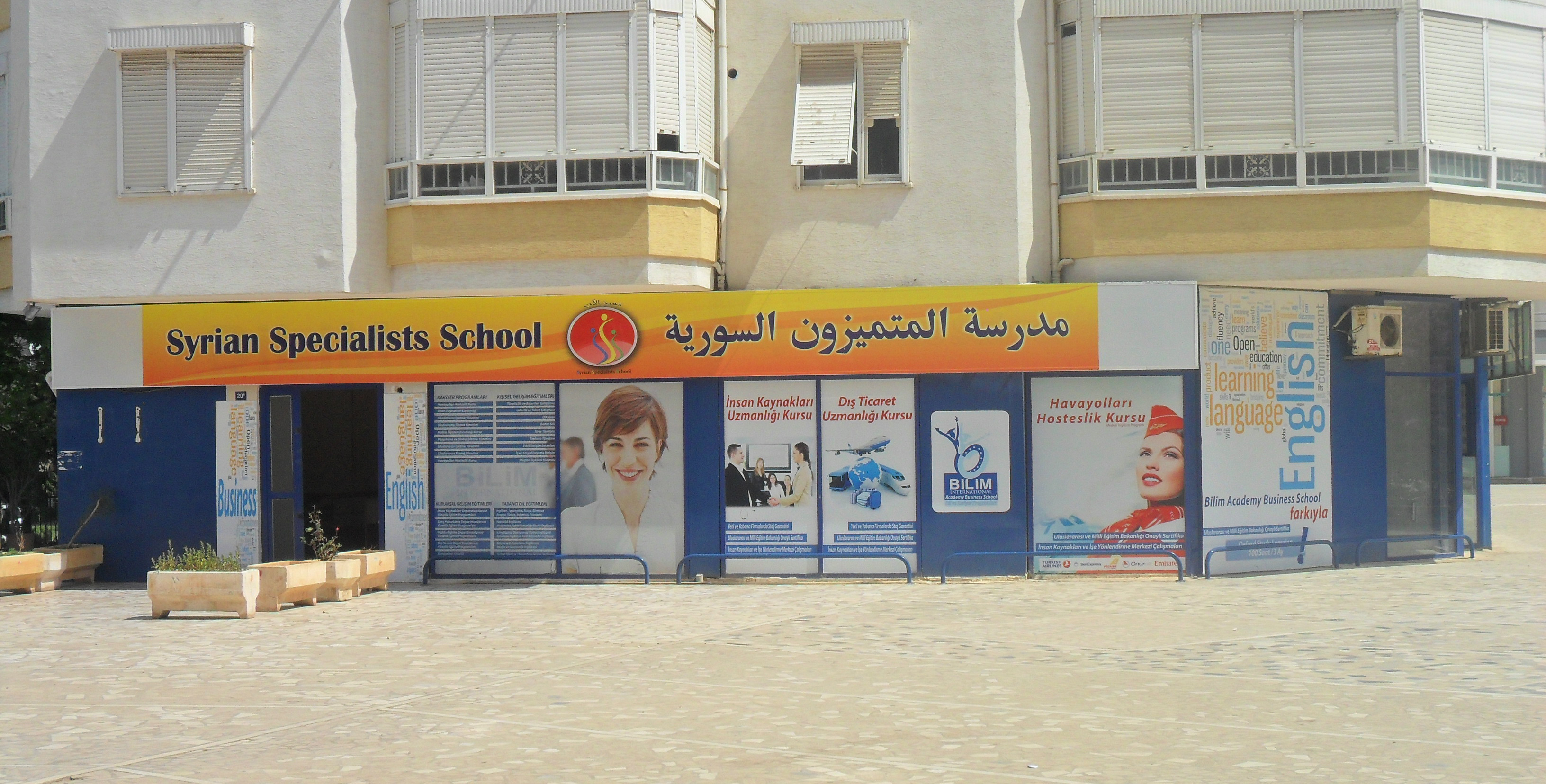 Syrian Specialists School, Mersin.